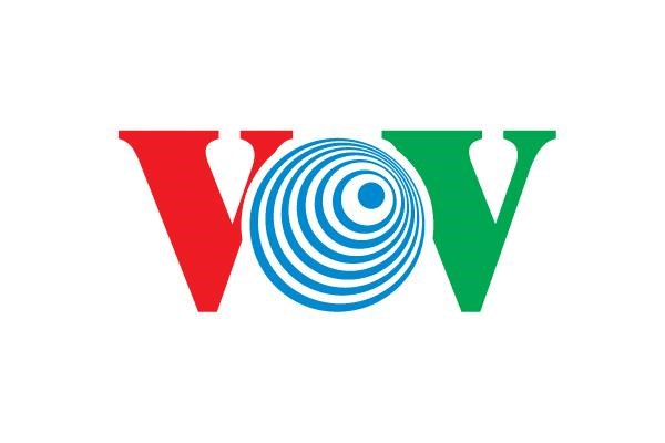 VOV Logo